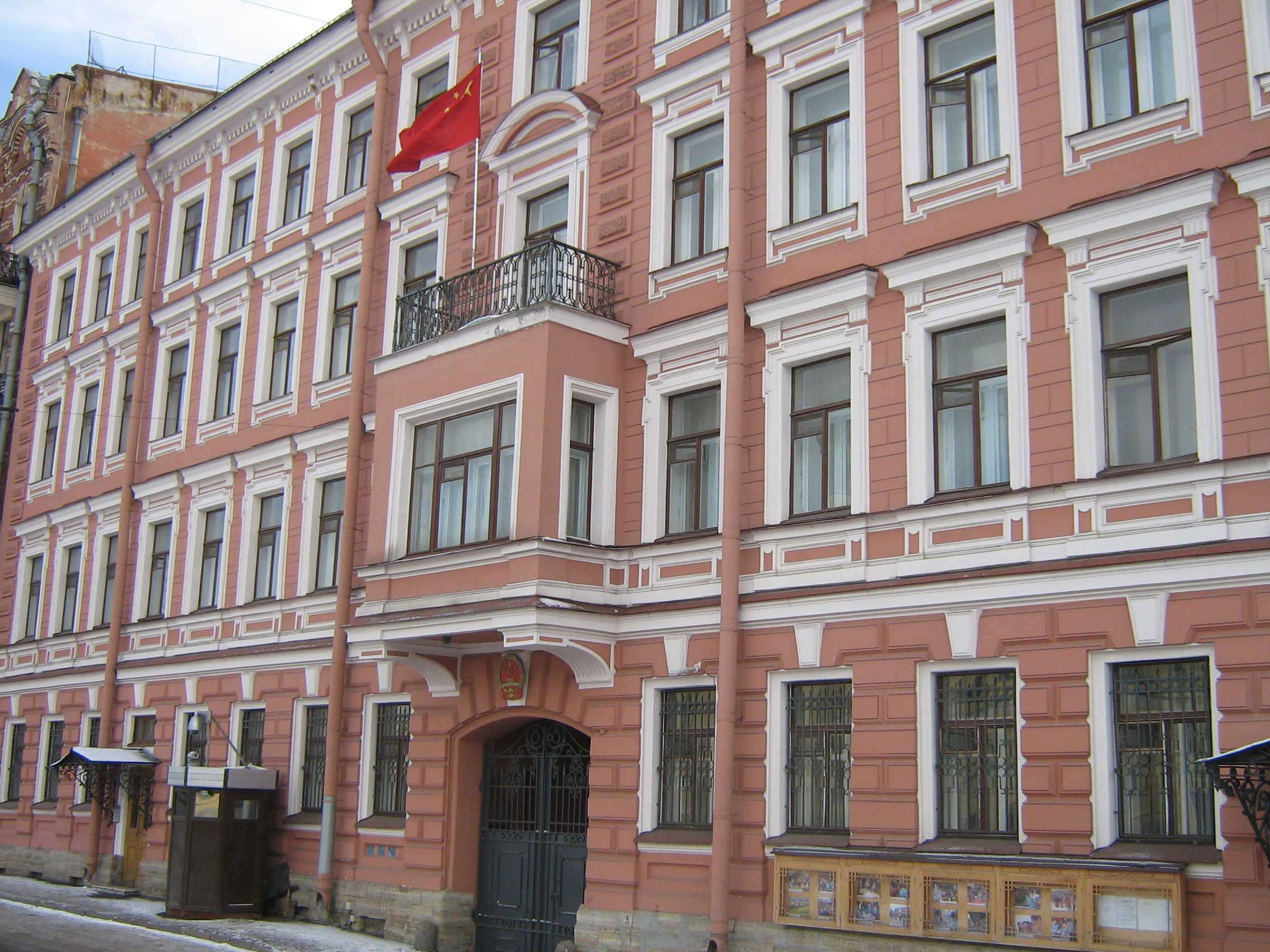 Saint Petersburg (Russia), Griboyedov Canal, 134